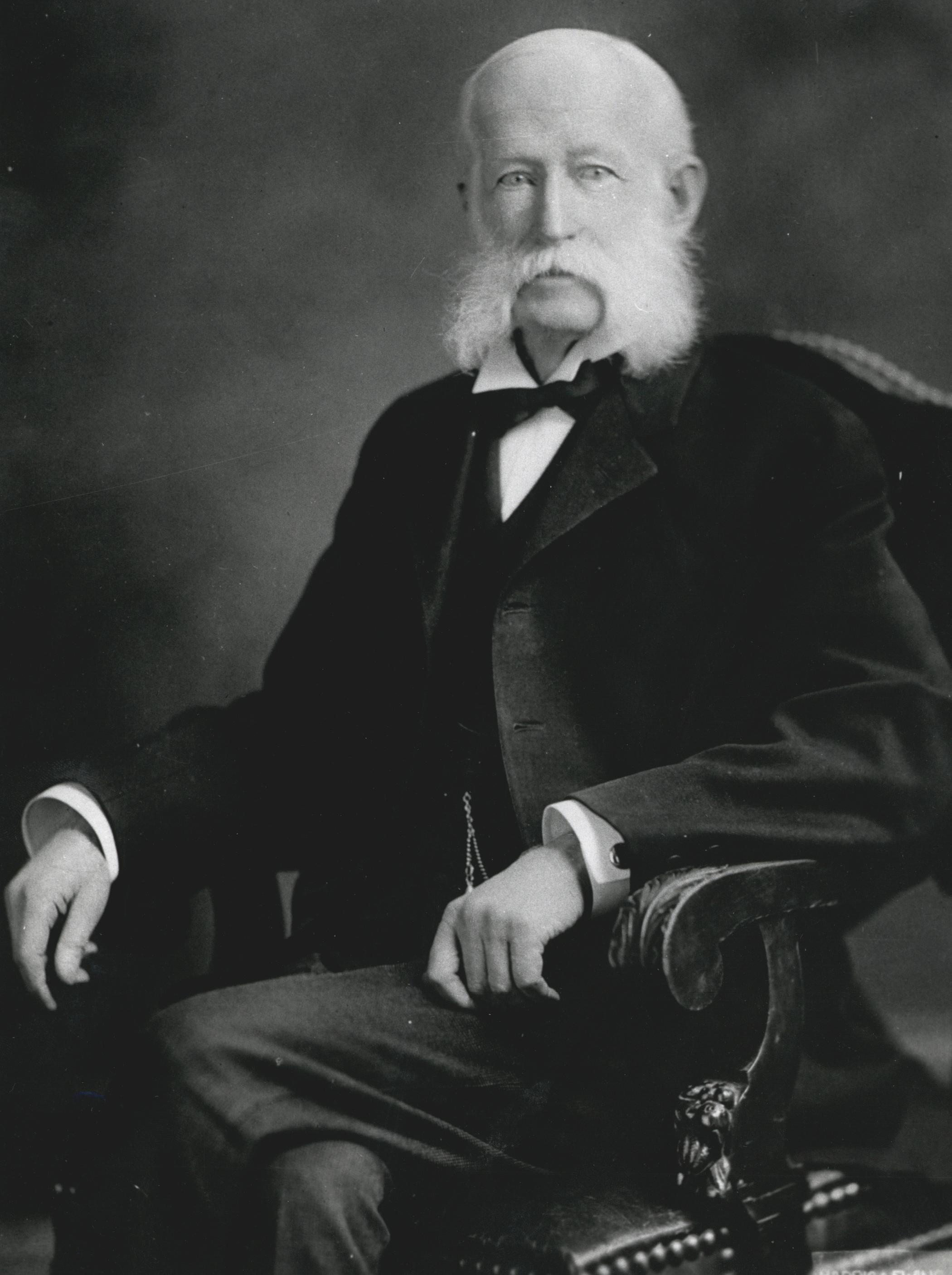 John W. Foster, U.S. Secretary of State, June 29, 1892 to February 23, 1893